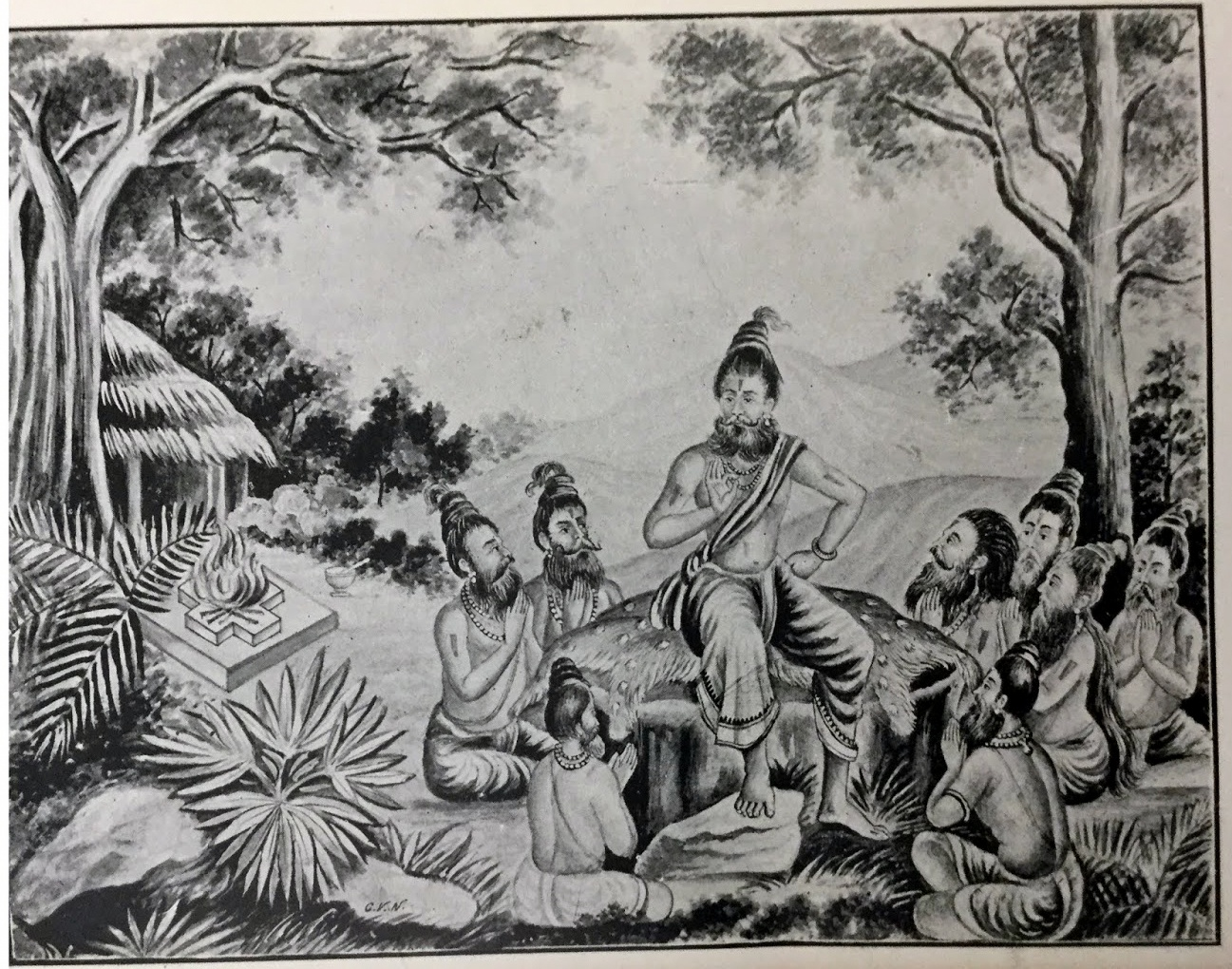 FOLLOWING ARE THE PICTURES FROM A 100 YEAR OLD BOOK OF BHAGAVATA PURANA. THESE PICTURES COVER FIRST TWO BOOKS; BHAGAVATA HAS 12 BOOKS